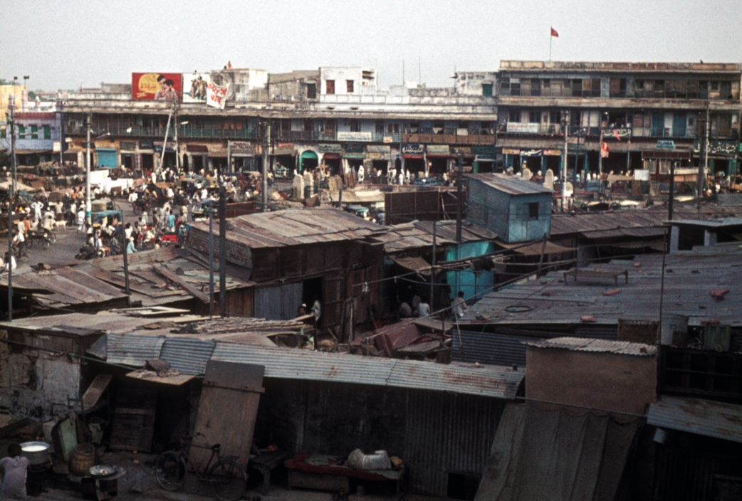 Slum in Delhi on 20 Jun 1973. Picture taken and uploaded by Roger McLassus. This is NOT Vancouver and should NOT be on the Vancouver page.